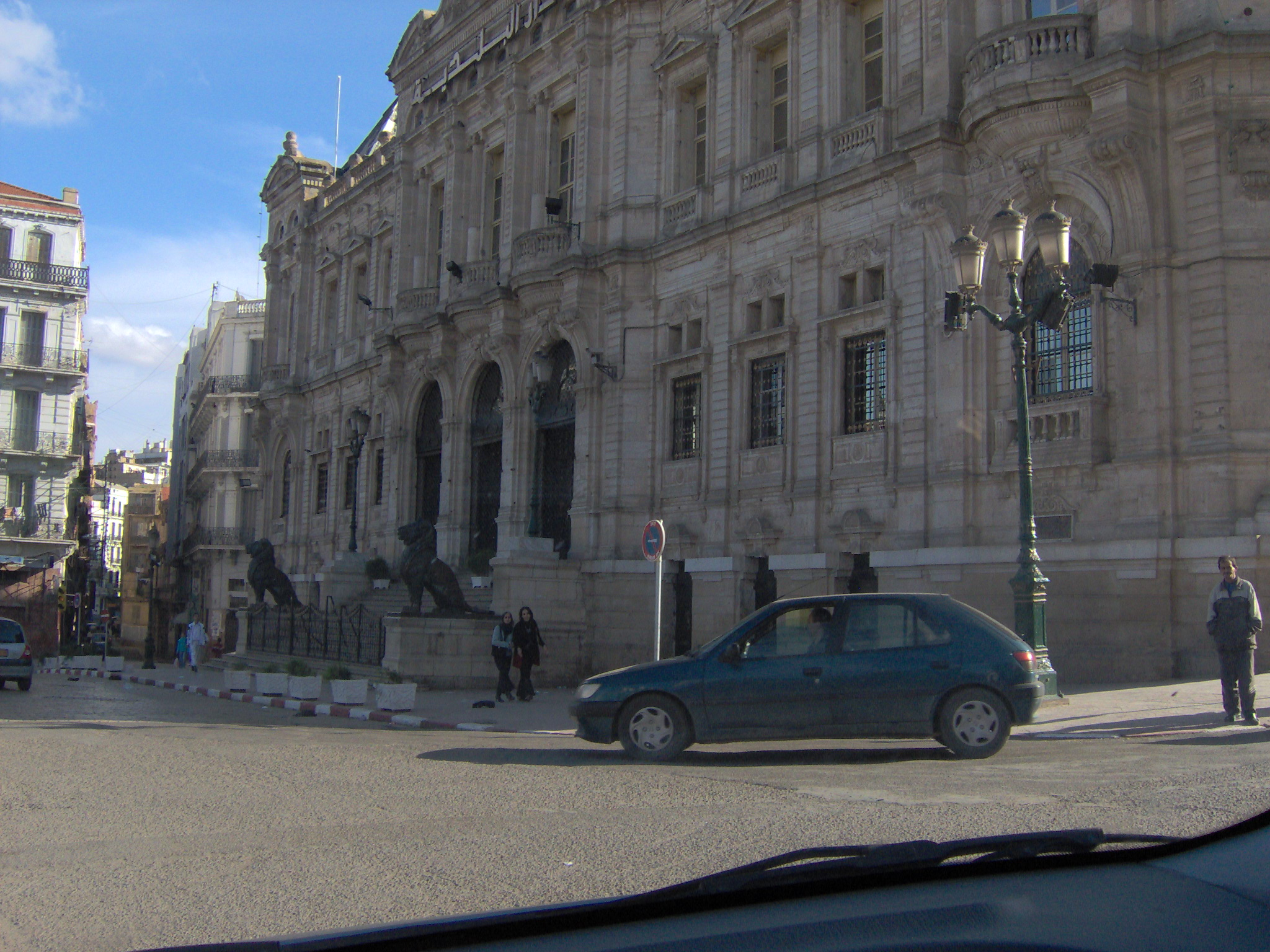 The city hall of Oran, Algeria.